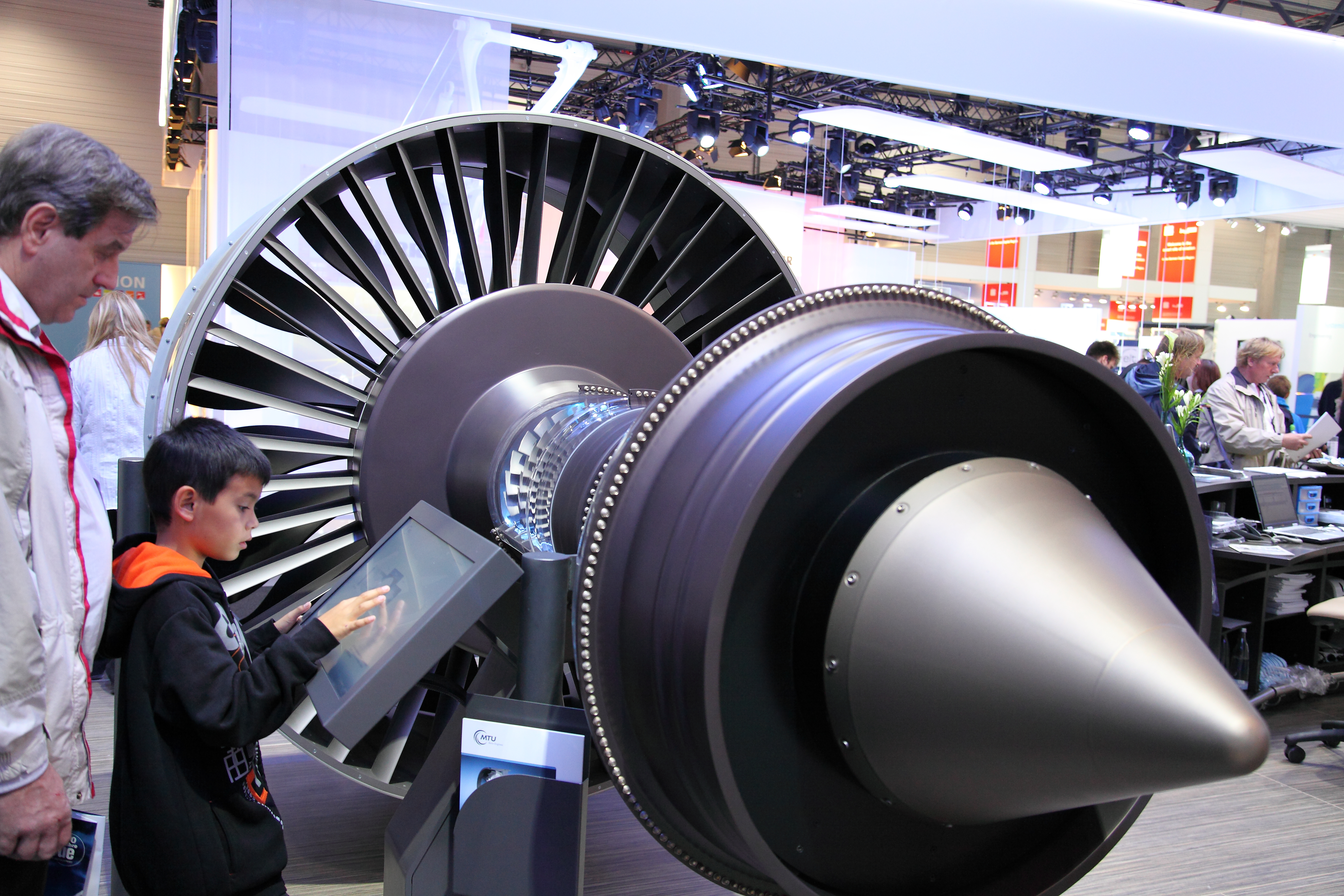 ILA Berlin Air Show 2012; Geared Turbo Fan: The Technology of the PurePower; PW1000G Engine